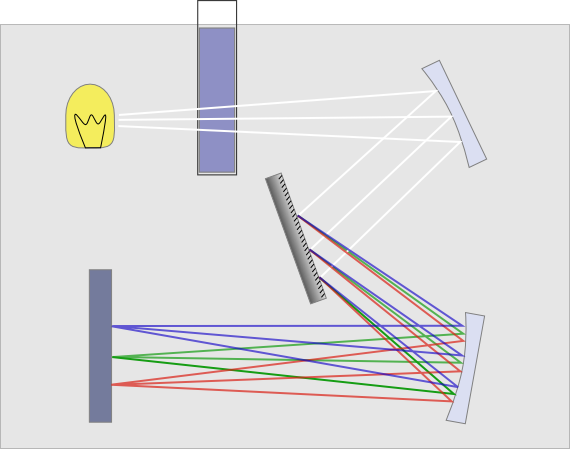 Simple single-beam UV/Vis spectrophotometer. White light from the source (bulb) passes through the cuvette containing the sample, is reflected onto a diffraction grating, and focused onto a CCD detector. (See also Czerny-Turner monochromator.)